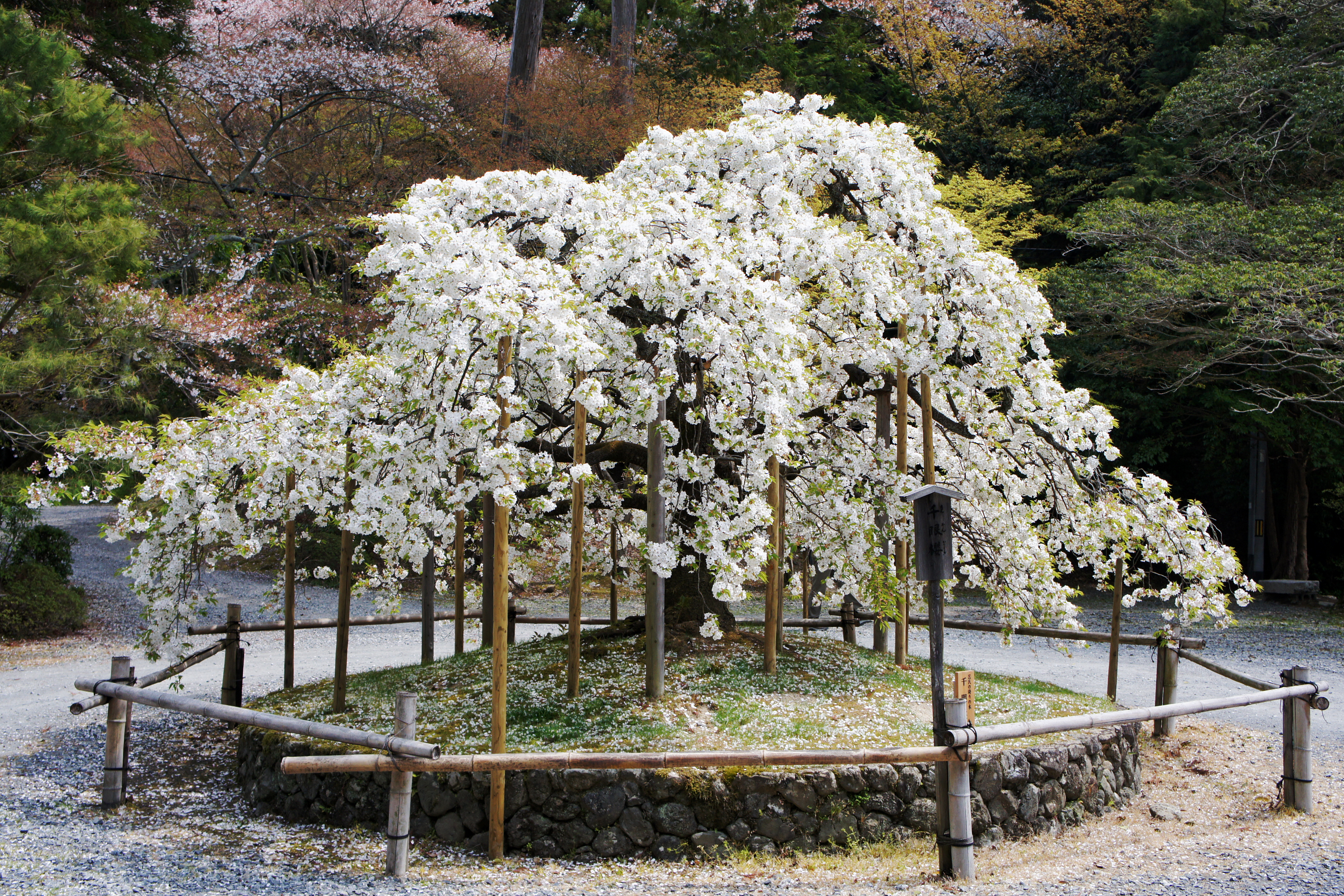 Sengan-zakura of Ōharano Shrine in Nishikyo-ku, Kyoto, Kyoto prefecture, Japan